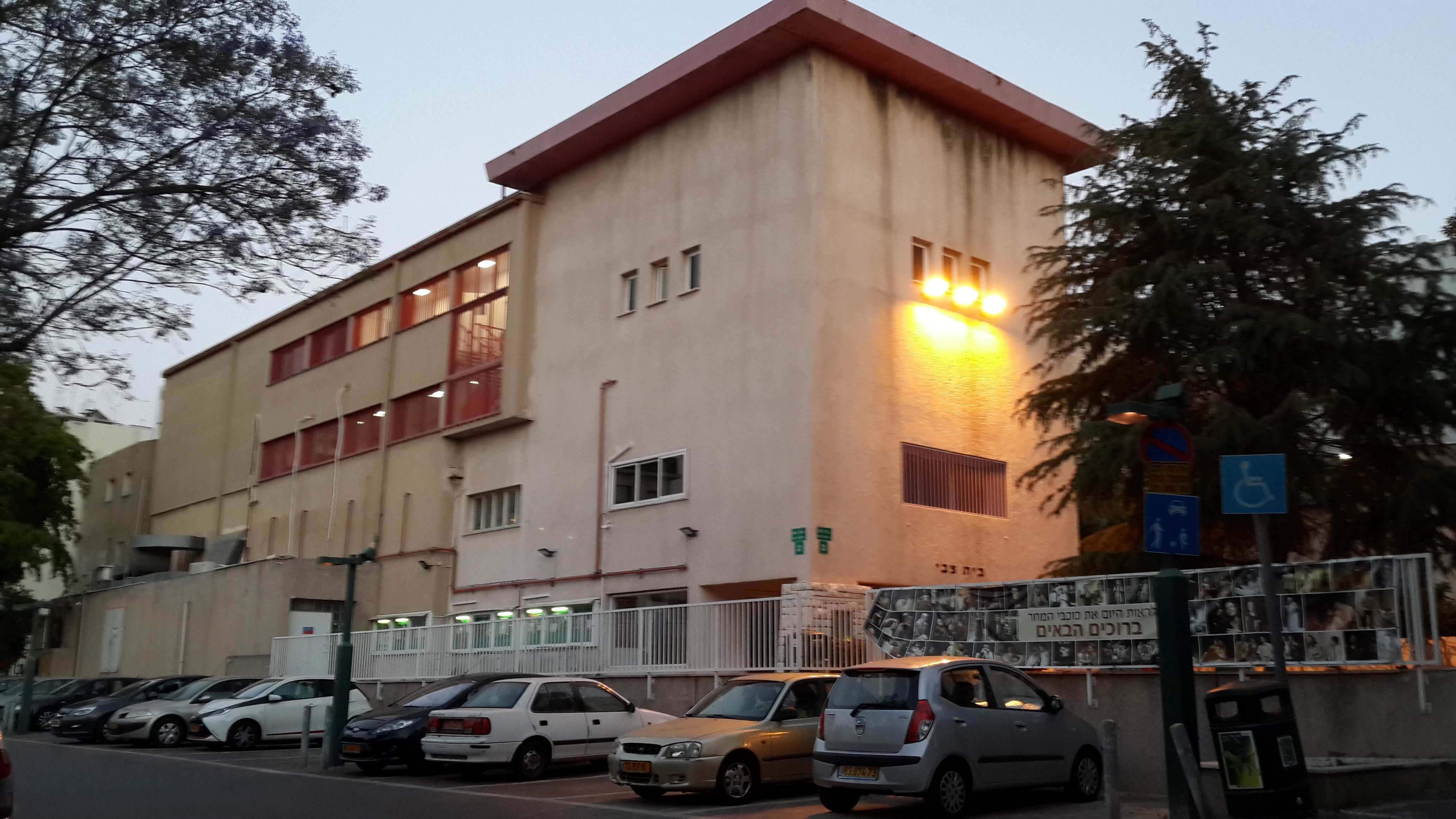 Beit Zvi School for the Performing Arts is an acting school located in Ramat Gan, Israel